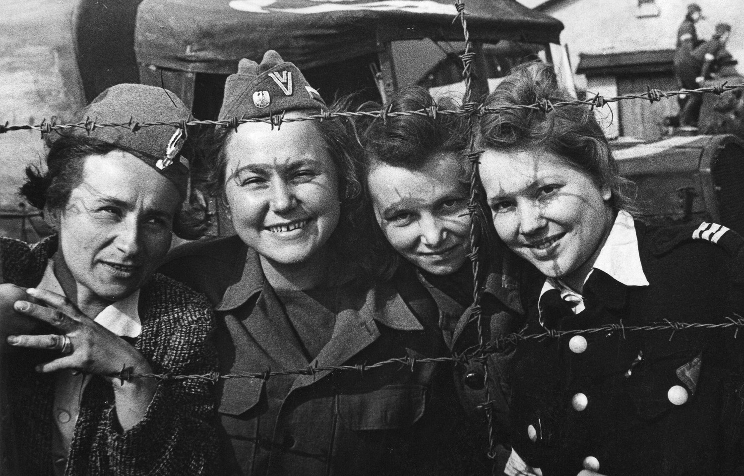 Polish women, soldiers of the Warsaw Uprising, after liberation of POW camp Oberlangen